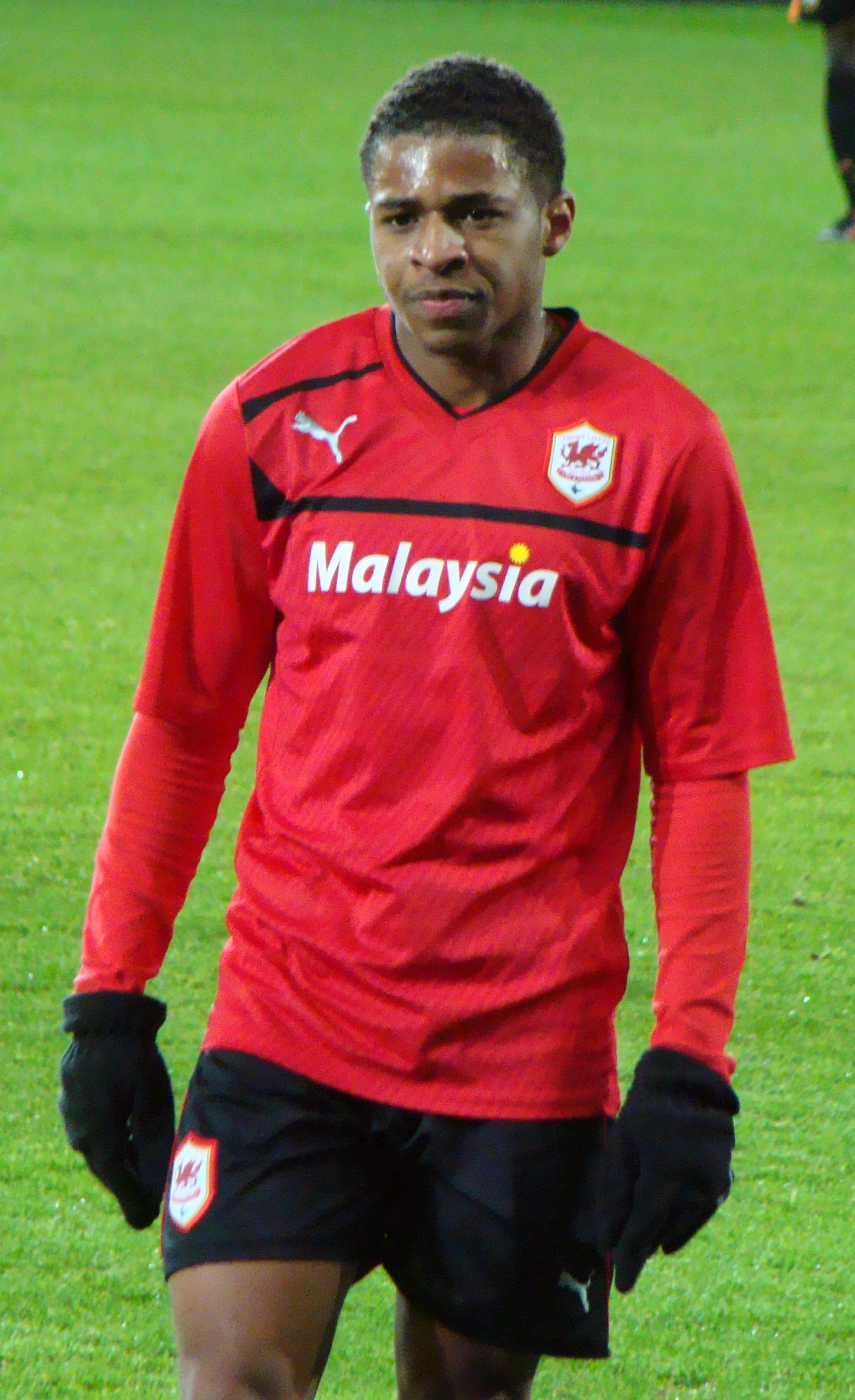 Kadeem Harris. Image cropped from original at flickr.